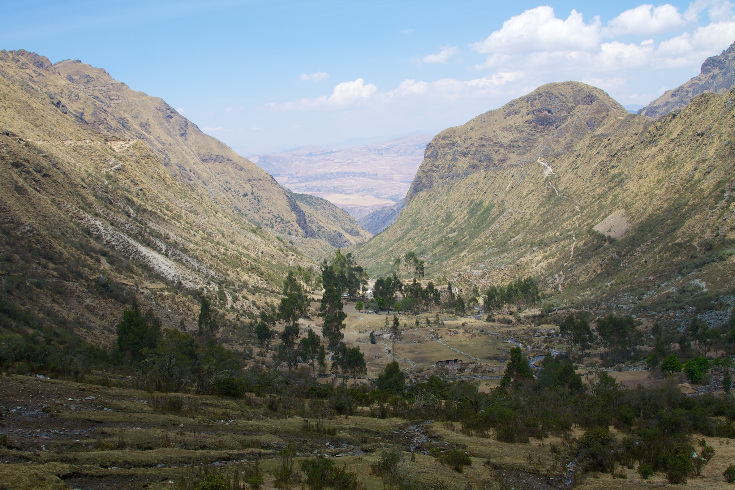 Above the pueblo of Pacchaspata, we get an amazing view back down the valley and all the way across towards Maras.